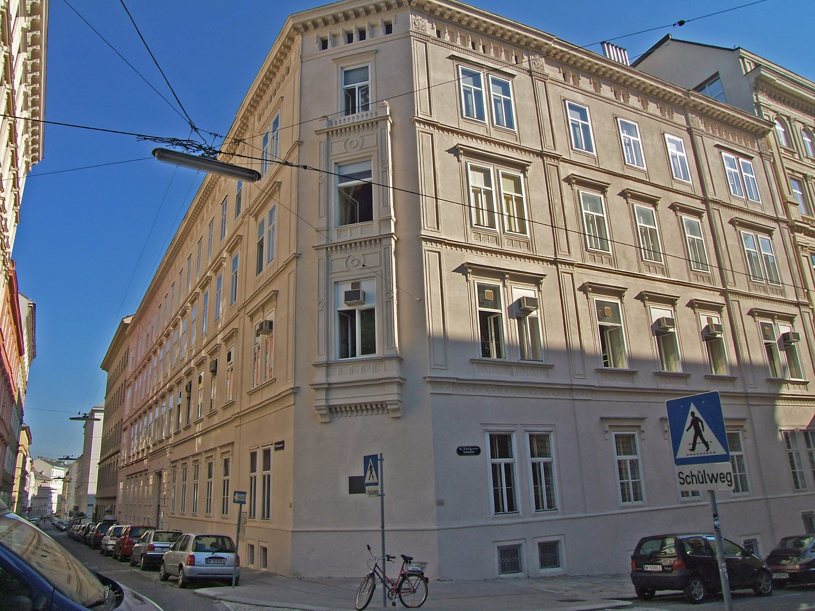 Palais Wasa in Vienna 9th district Wasagasse 12